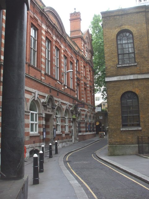 The Bridewell Theatre, Bride Lane, London